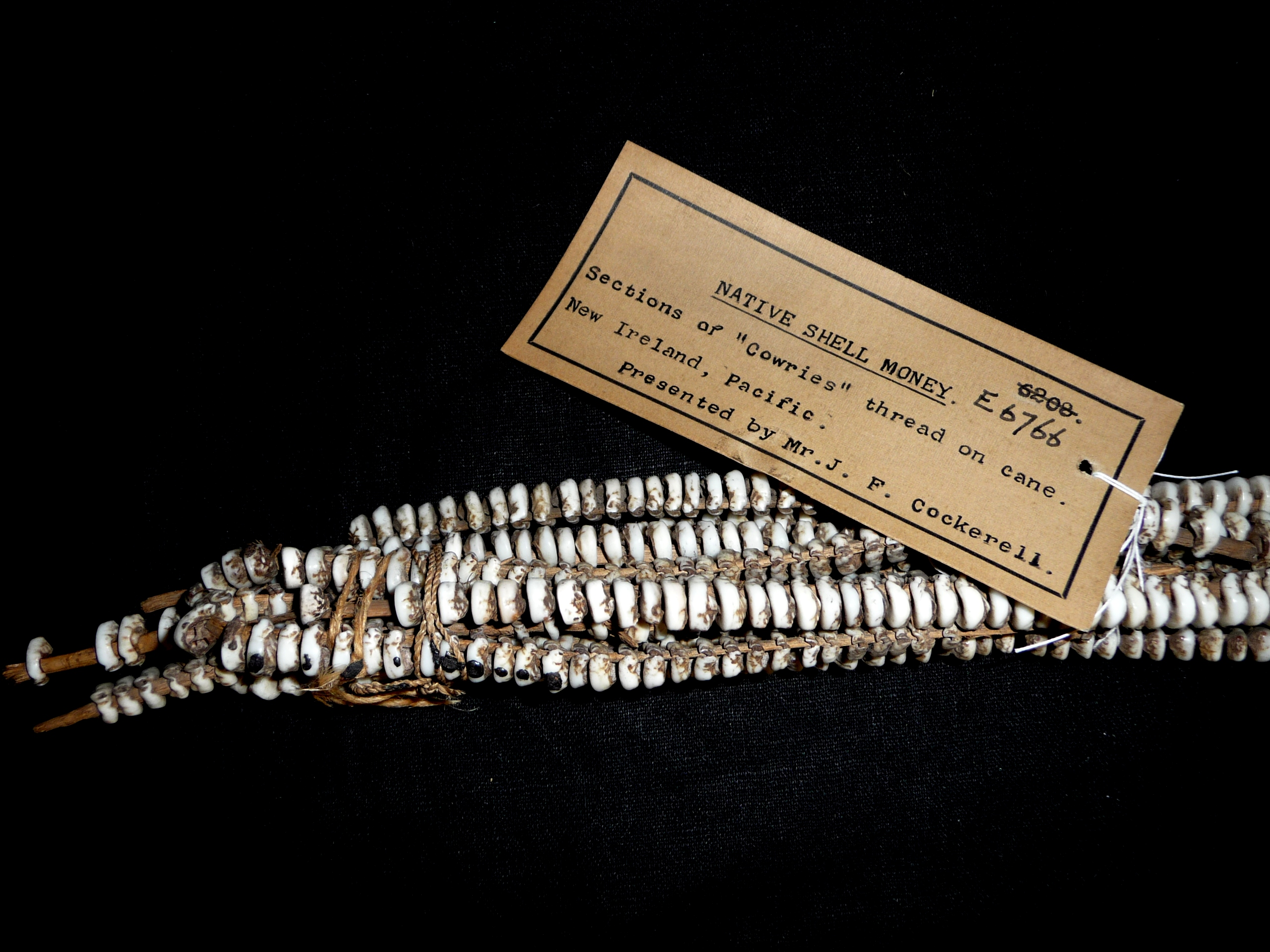 This is shell money, used in some islands of Papua New Guinea. Shell money like this is called diwara, tambu or tabu. Sometimes, people wear shell money as necklaces or earrings. Object description: This shell money is from the Duke of York Islands in East New Britain Province, Papua New Guinea. It is called diwara. It features a series of Nassarius shells, threaded on to pieces of cane. The back of the shell has been removed so it can easily be threaded onto the cane. Each shell is about 9mm long. The cane has been cut to various lengths to indicate different values. History: Each place in Papua New Guinea has a different type of traditional money, usually made of different types of shells. Today, shell money is most often exchanged on special occasions, like weddings or funerals. In East New Britain, shell money is also used at markets to buy fresh food. Depending on what is being paid for, people may use bank currency as well as shell money.